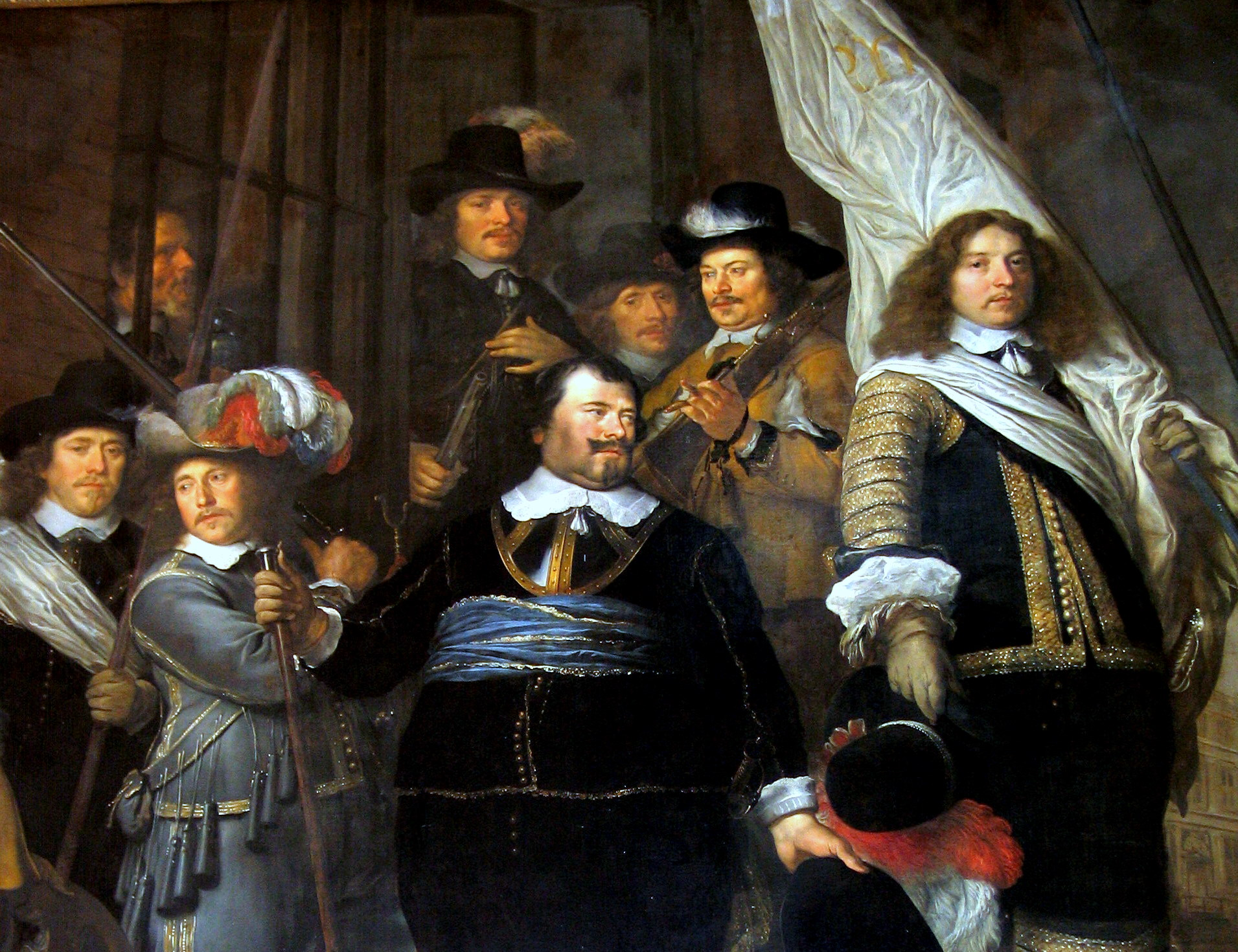 Mayor Johan Huydecoper van Maarsseveen as an officer of the militia in 1648. Detail of